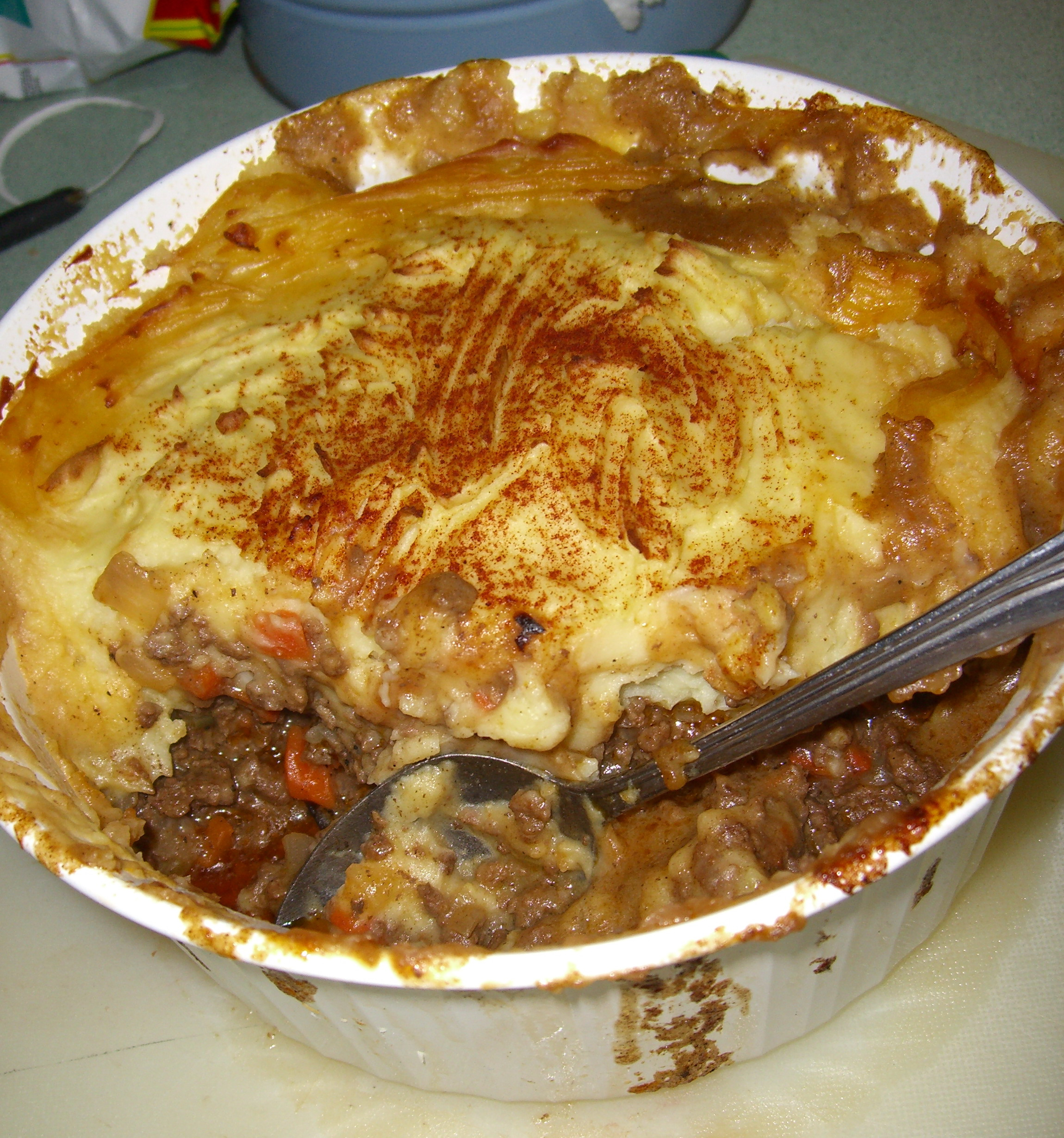 Shepherd's Pie